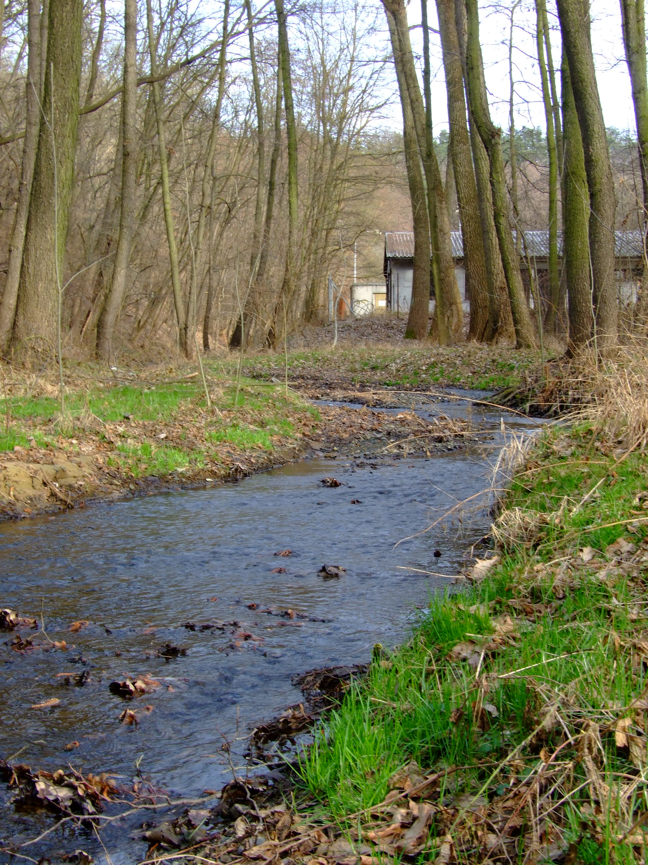 Libušský potok creek in Modřany, Prague, CZ